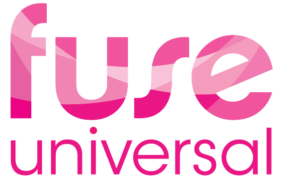 New updated Fuse Universal logo